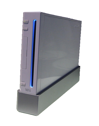 Nintendo's Wii as it was shown at E3 2006.